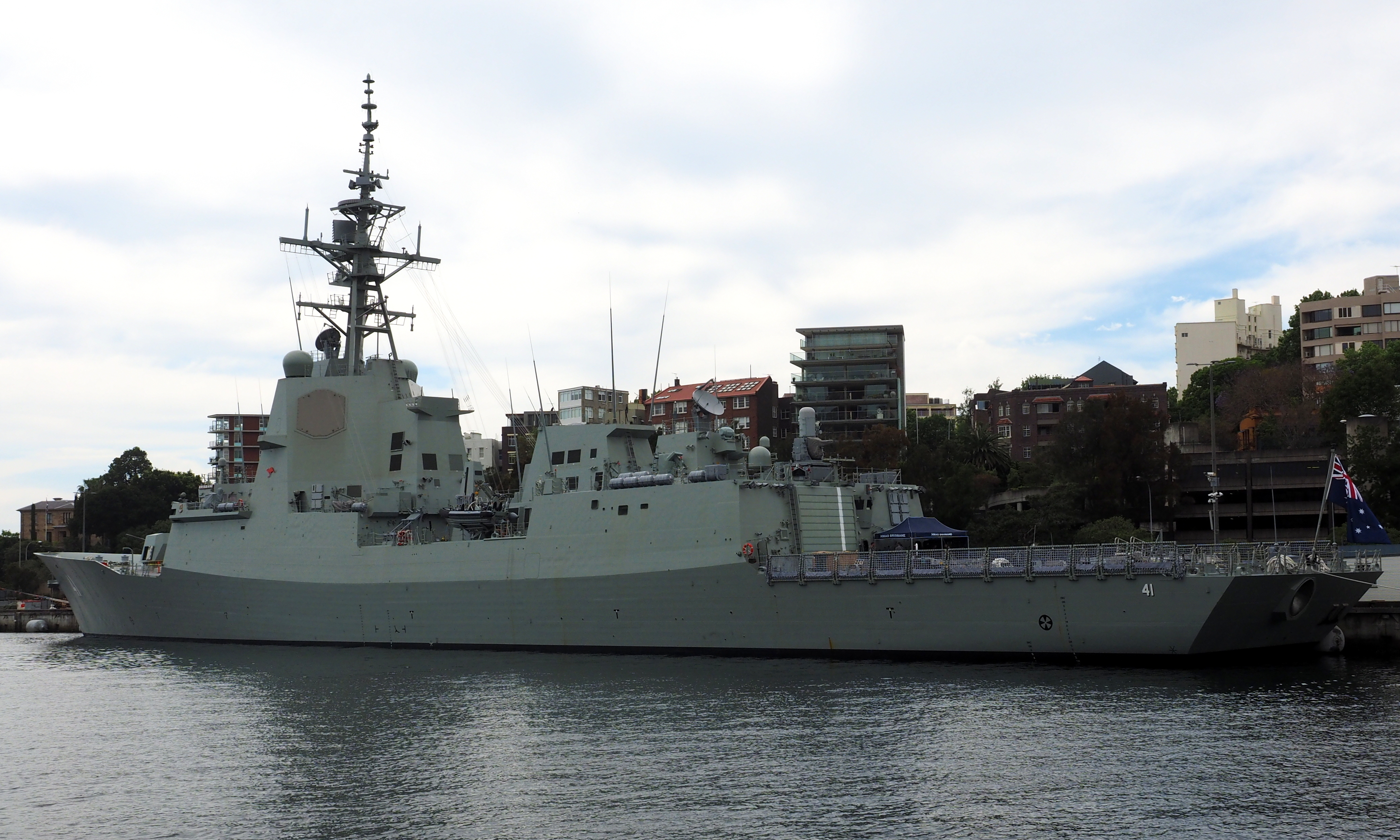 NUSHIP Brisbane alongside at HMAS Kuttabul in October 2018